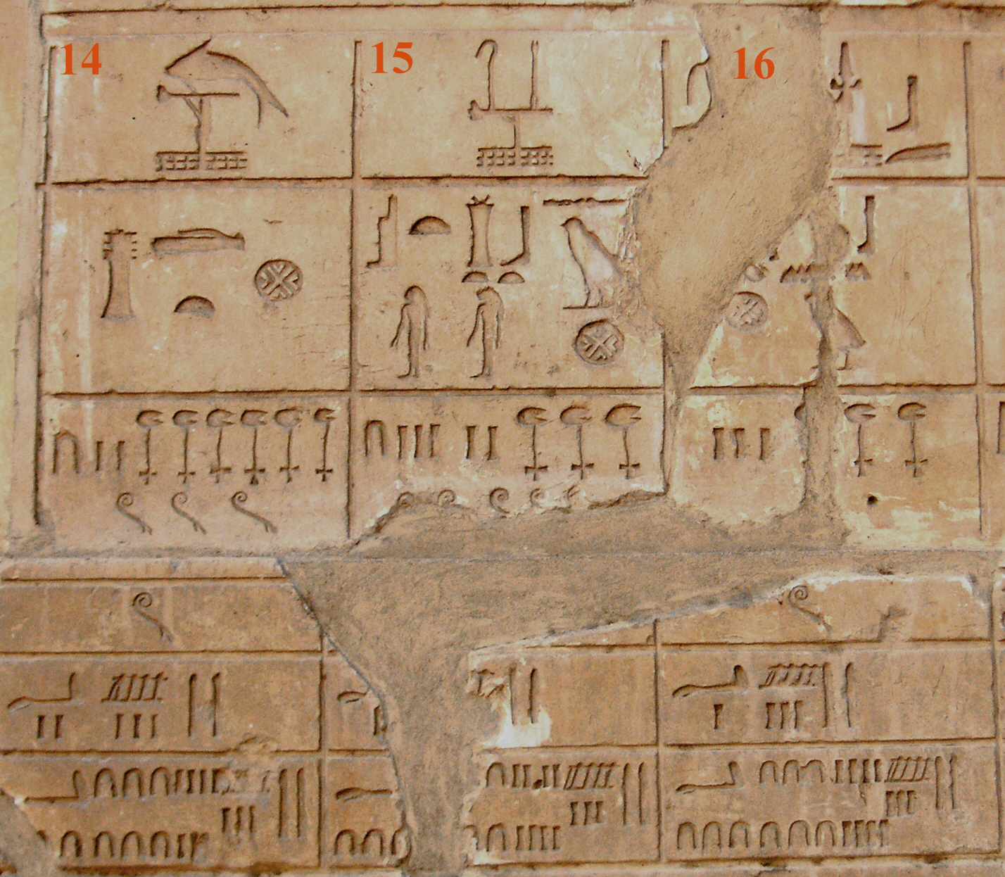 Nome 14 to 16 of Lower Egypt (list of Sesostris I.)